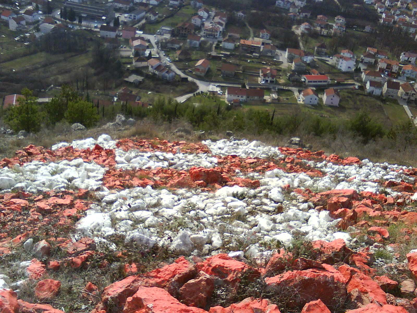 Croatian coat of arms at the Gipsy hill near Široki Brijeg